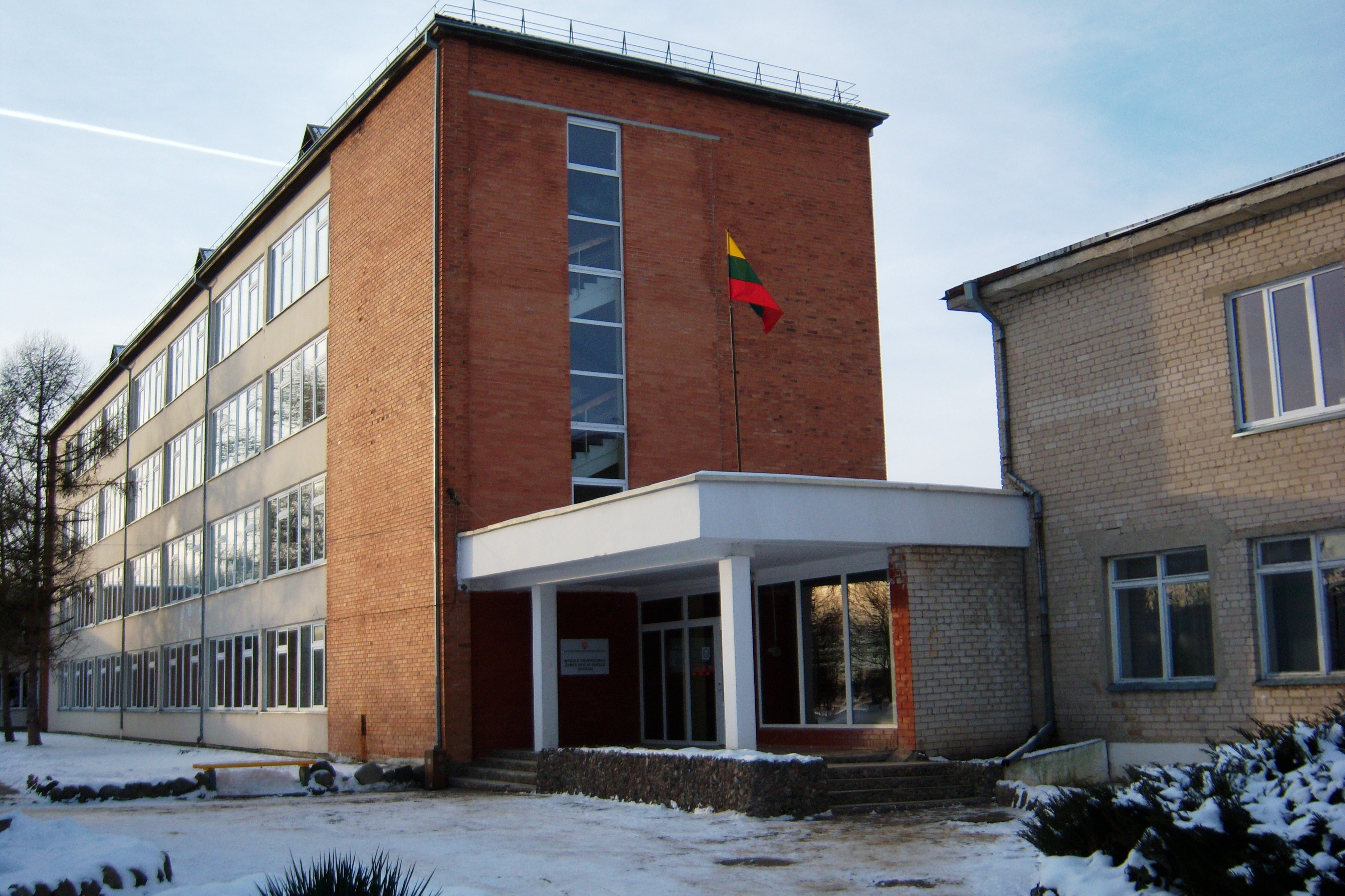 Alytus Vocational Education Centre, Agricultural and Business Unit in Balbieriškis, Prienai District, Lithuania